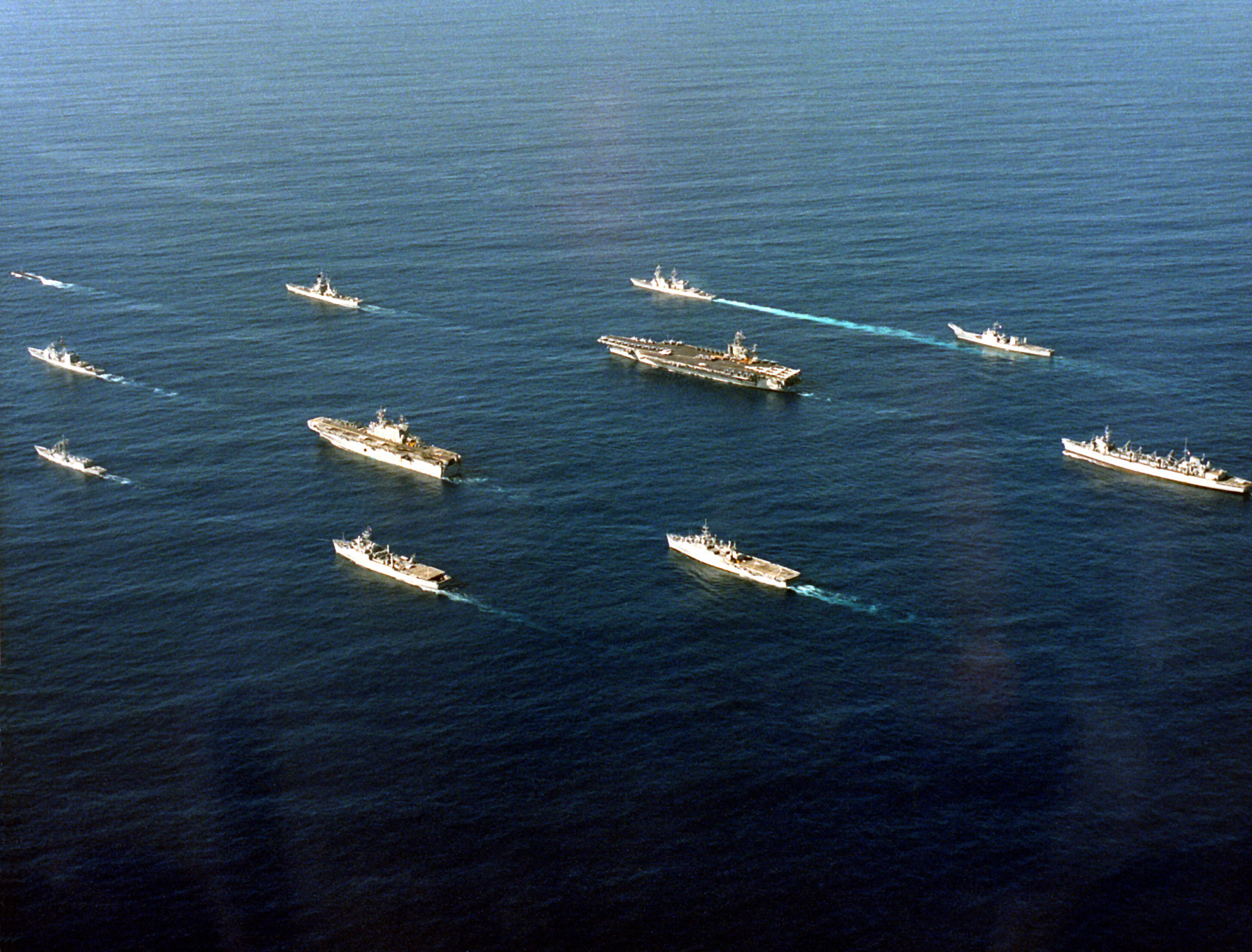 The Battle Group built around the nuclear-powered aircraft carrier USS CARL VINSON (CVN-70) steams towards a naval operational training are off the southern California coast. The ships are, (clockwise from the lower left), the guided missile frigate USS REUBEN JAMES (FFG-57), guided missile cruiser USS ANTIETAM (CG-54), nuclear-powered attack submarine USS ASHEVILLE (SSN-758), nuclear-powered guided missile cruiser USS ARKANSAS (CGN-41), destroyer USS HEWITT (DD-988), fast combat support sh USS CAMDEN (AOE-2), amphibious assault ship USS PELELIU (LHA-5) & 3 unidentified amphibious ships. (DN-SC-95-00583)